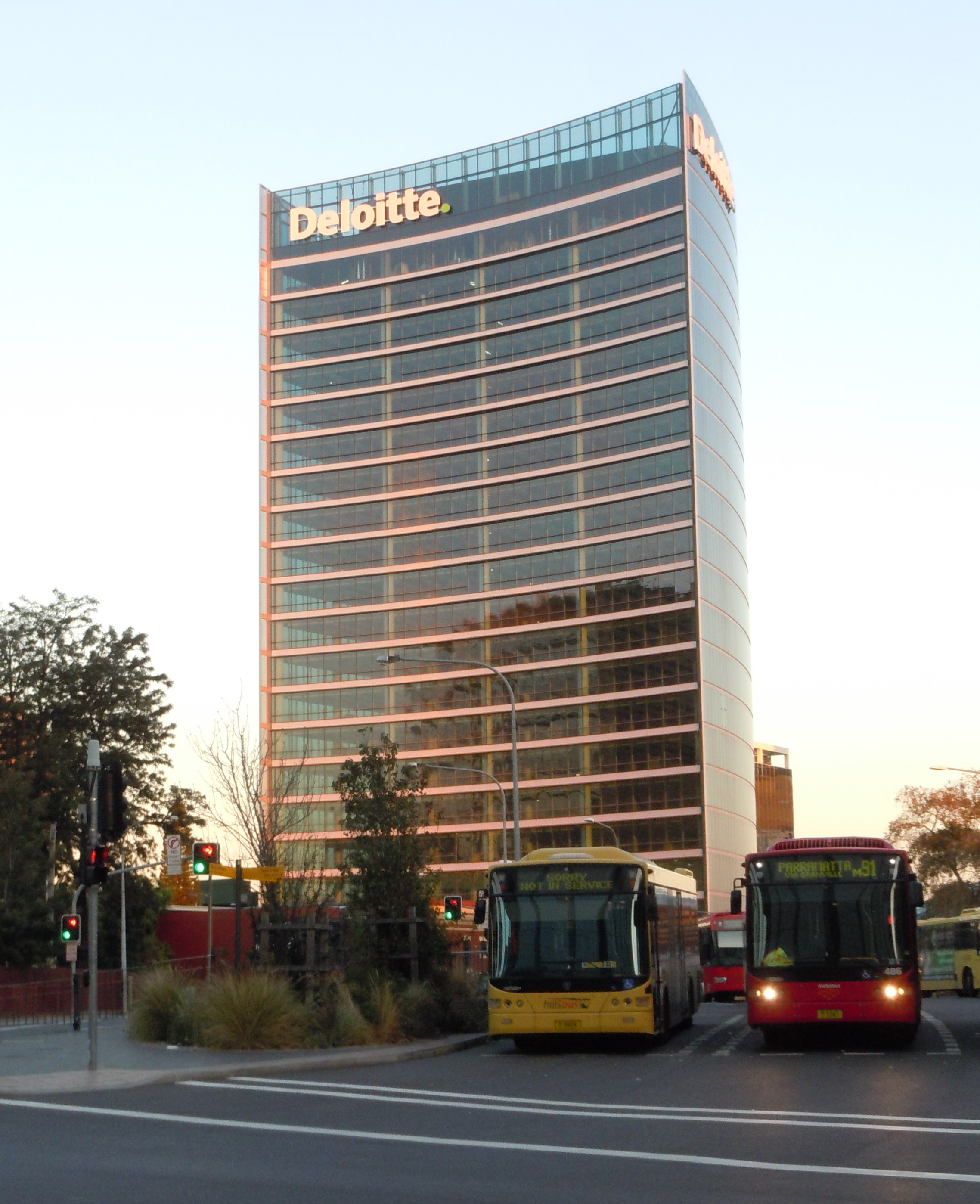 Sunset view of the office tower Eclipse in the final stages of construction.